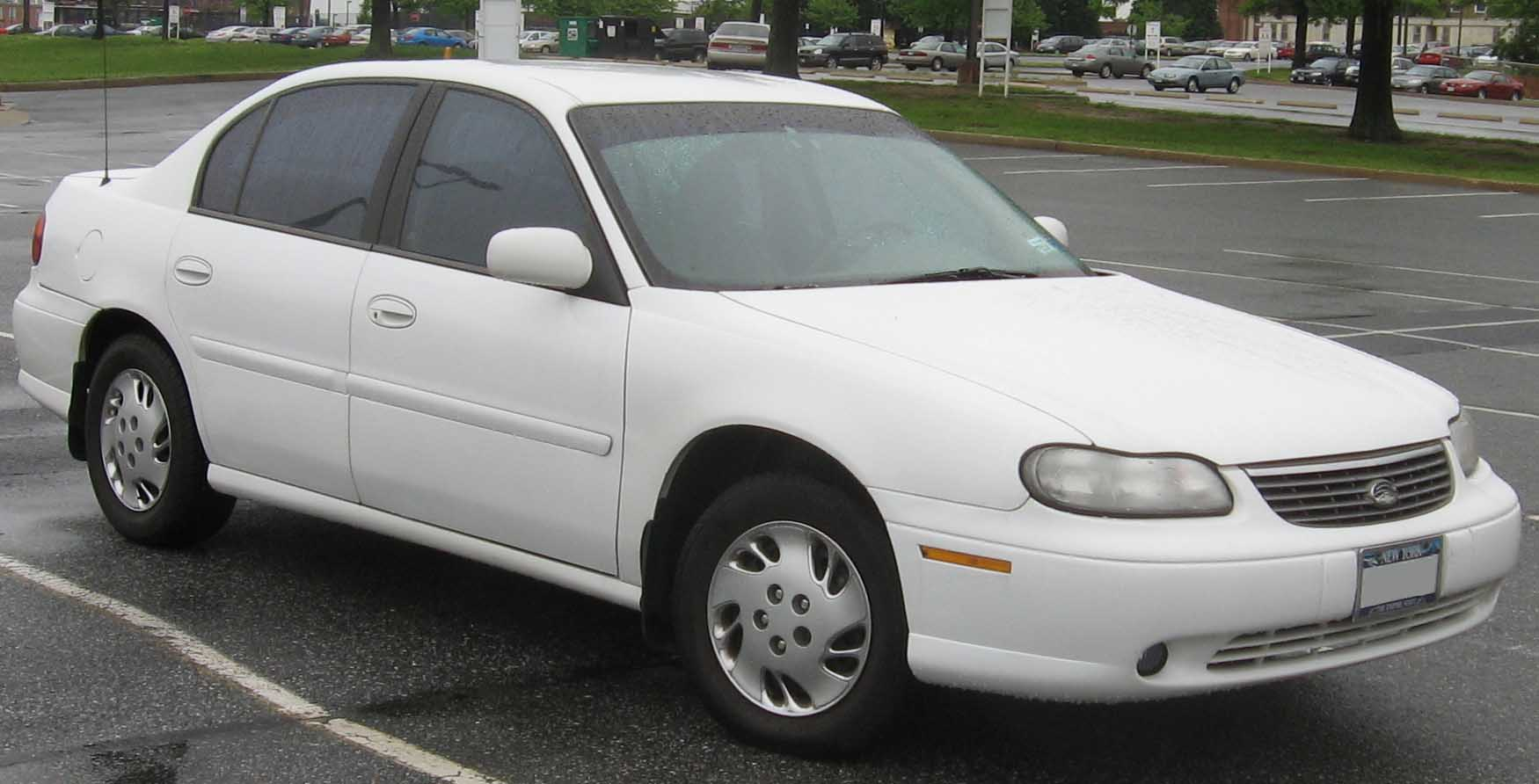 1997-1999 Chevrolet Malibu photographed in College Park, Maryland, USA.